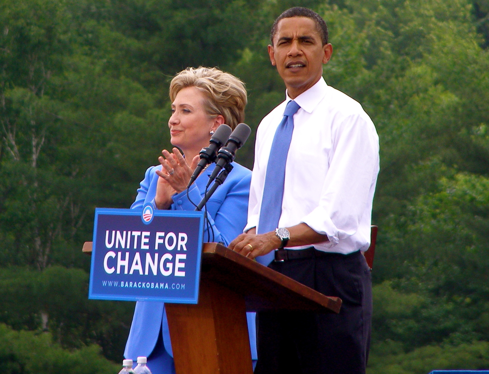 "Unite for Change" rally in Unity, New Hampshire on June 27, 2008. Marked the end of the 2008 Democratic primary with Hillary Clinton endorsing Barack Obama.